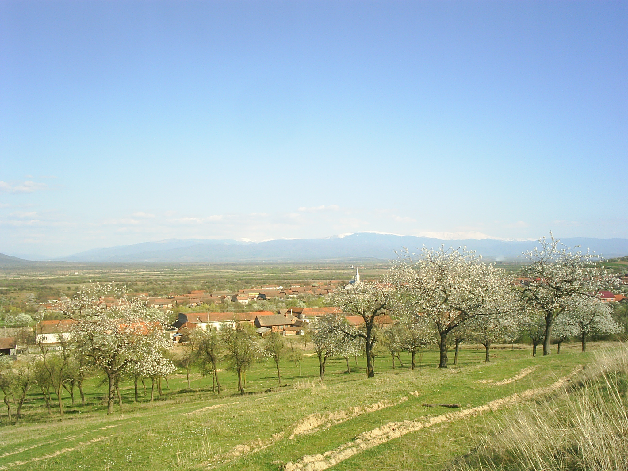 Matnicu Mare, Caraş-Severin County, Romania seen from uphill